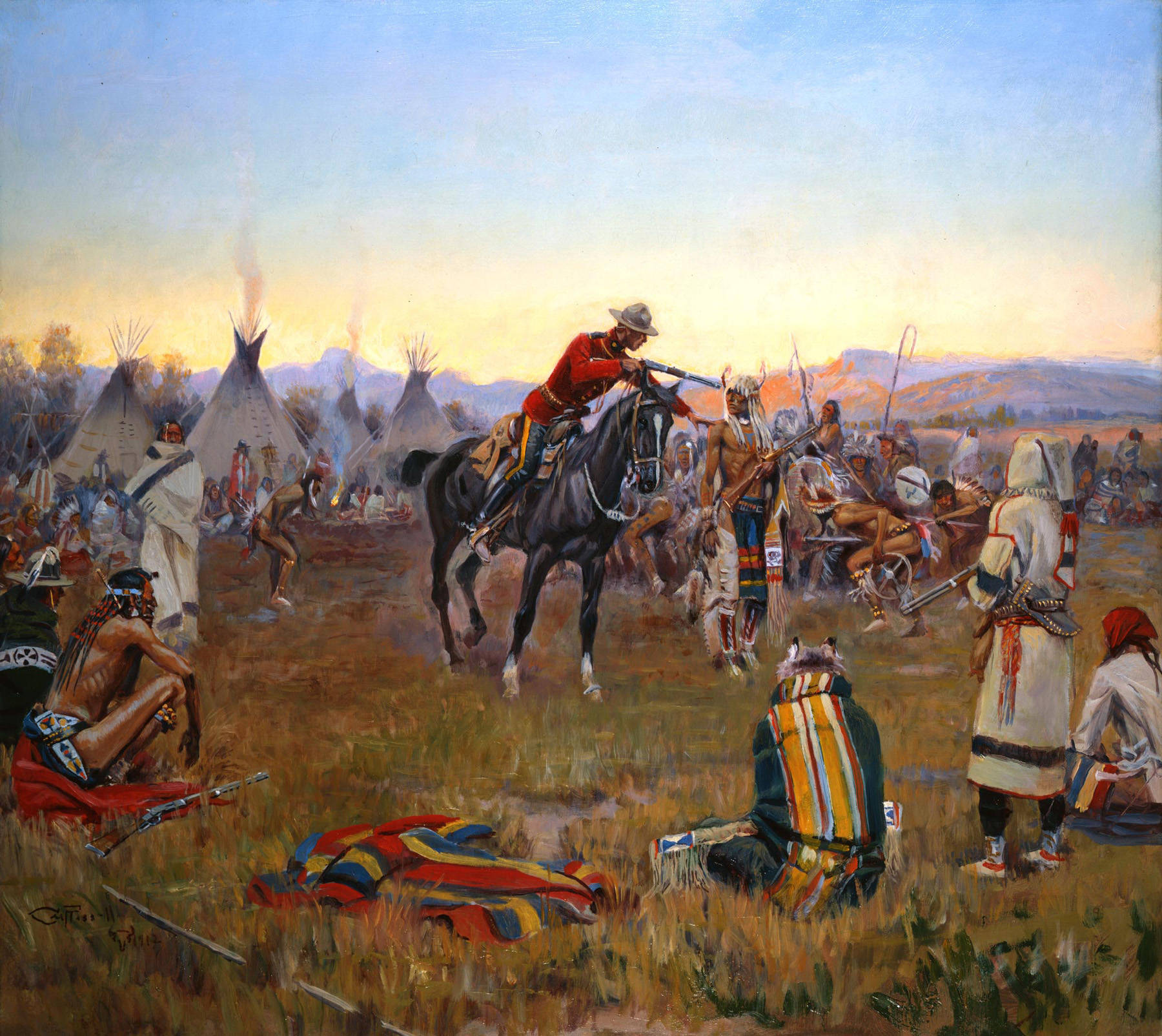 Single-Handed, Charles Marion Russell 1912. Painting shows a lone Mounted Police attempting to arrest a Blood warrior, most likely in Canada. Though the relationship between the police and the Blackfoot was largely peaceful the Mounted Police imposed laws on the Blackfoot (such as no raiding other tribes) which they found intrusive and hard to understand.